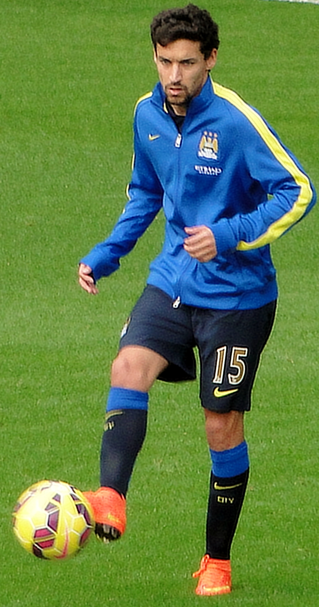 Manchester City player, Jesus Navas, warming up before their Premier League defeat to West Ham United at the Boleyn Ground, October 2014